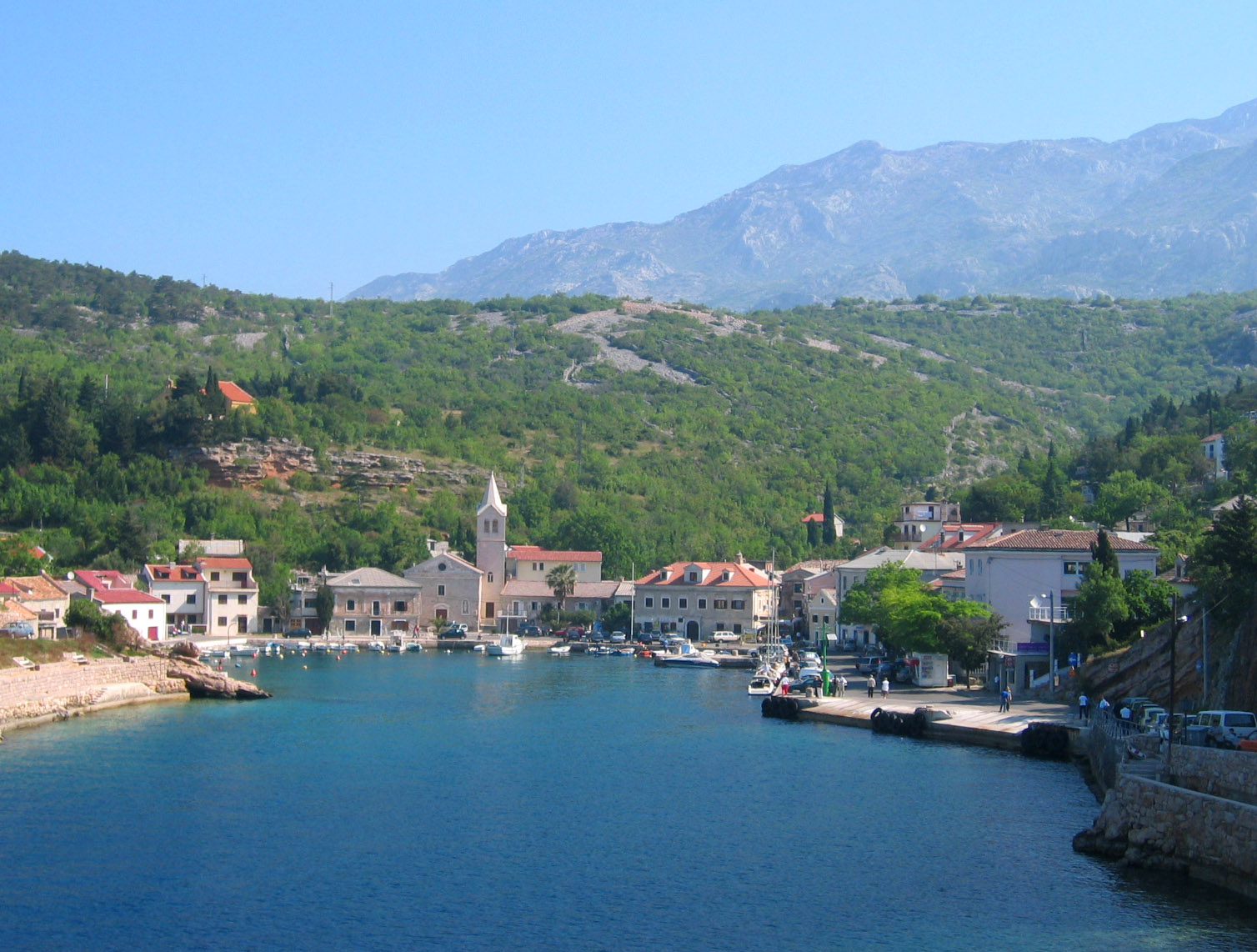 Jablanac, port in north Croatia